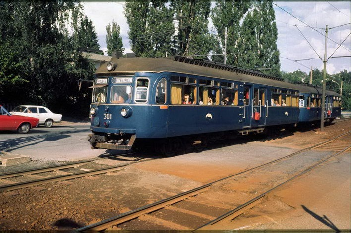 C1 301 at Sørbyhaugen on the Oslo Metro's Røa Line